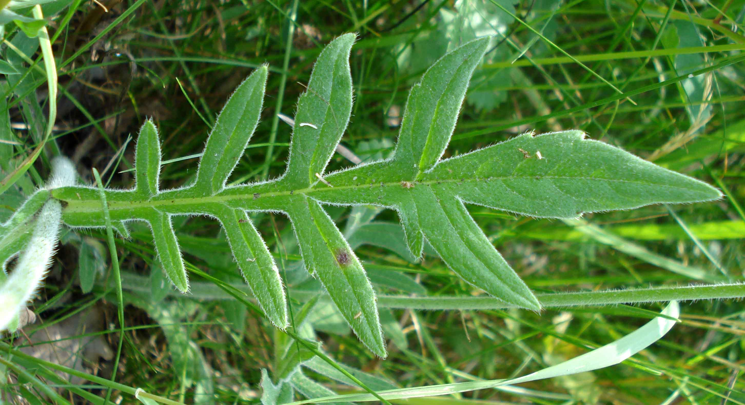 Knautia arvensis (Unterfranken, Germany)